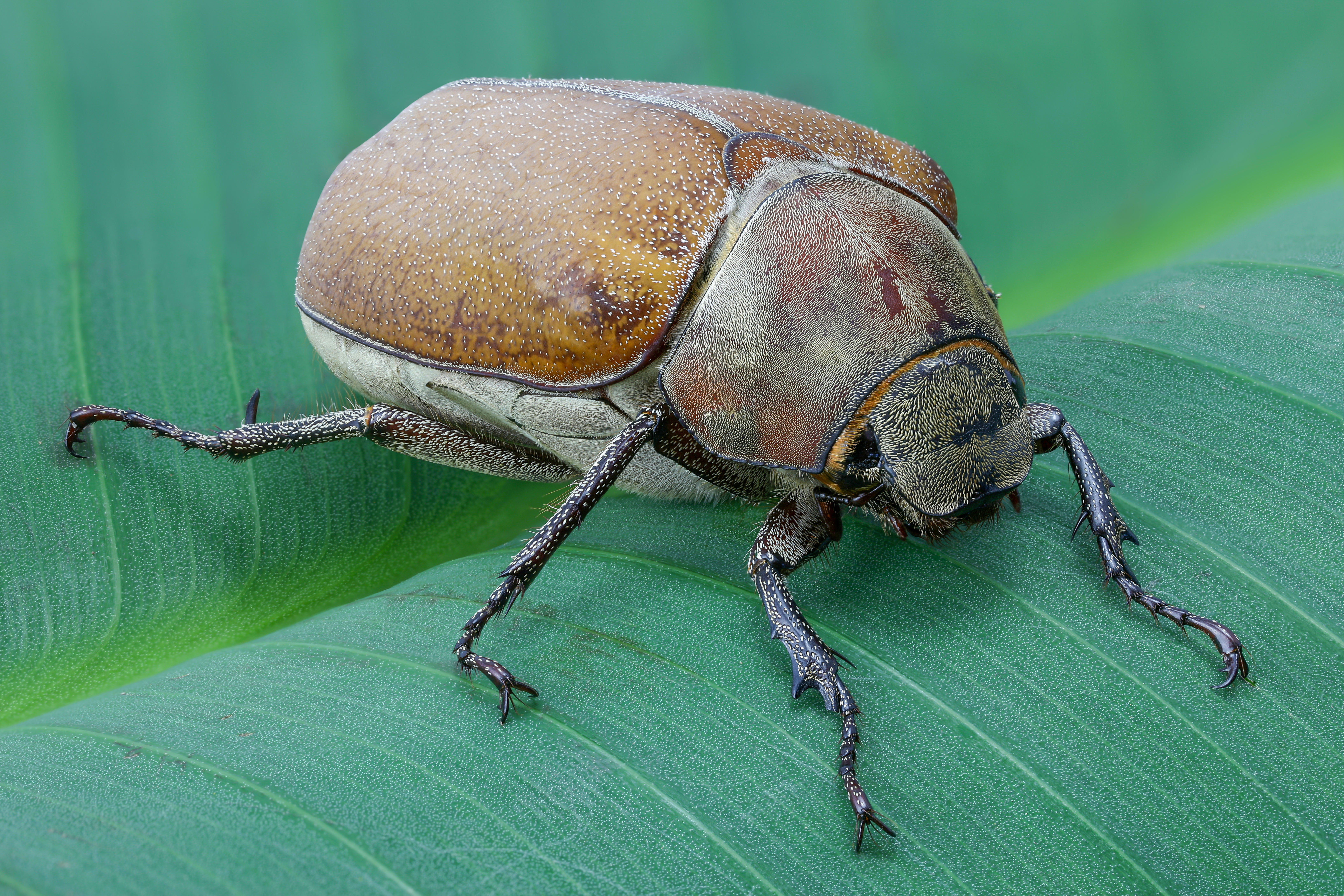 Lepidiota (Melolonthinae, Melolonthini, Leucopholina) in Don Det (Laos) on a banana leaf. Three-quarter view, focus stacking from 21 pictures, studio shots. This specimen measures 51 mm (2.0 in).